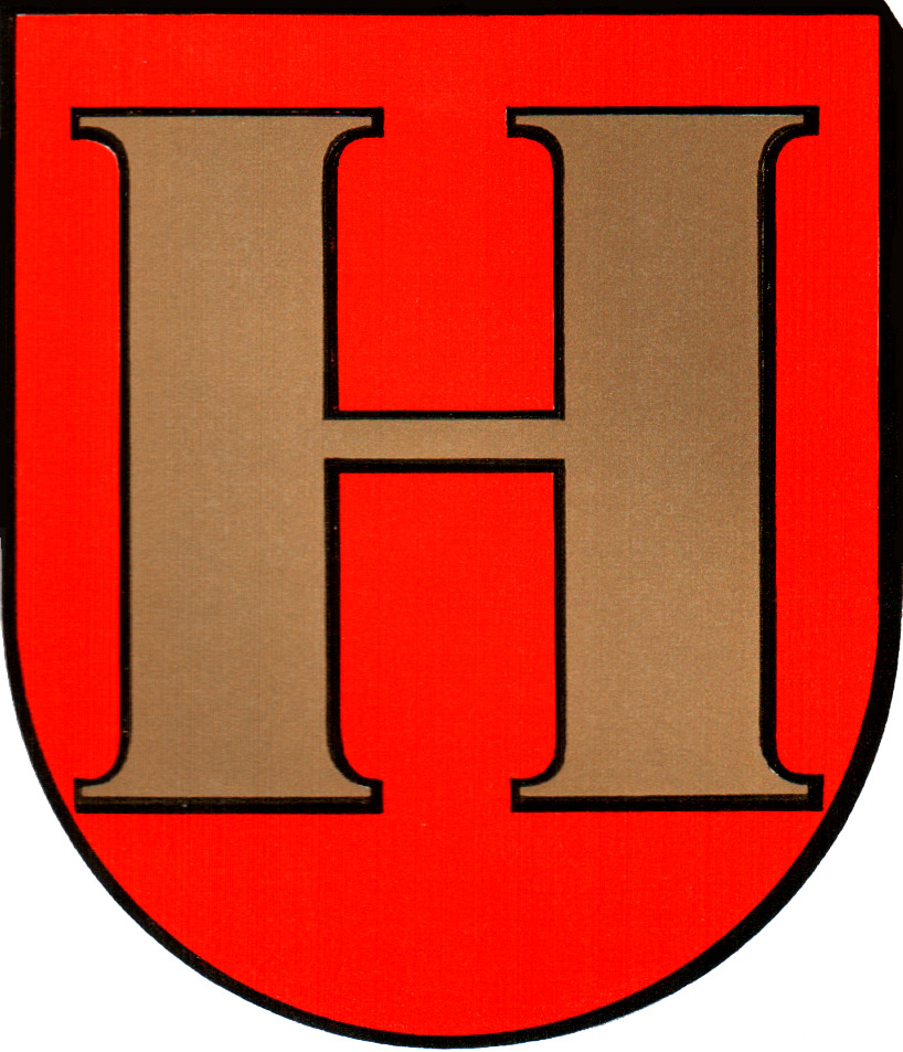 Coats of arms of Hedemünden, Germany, 2006-12-27